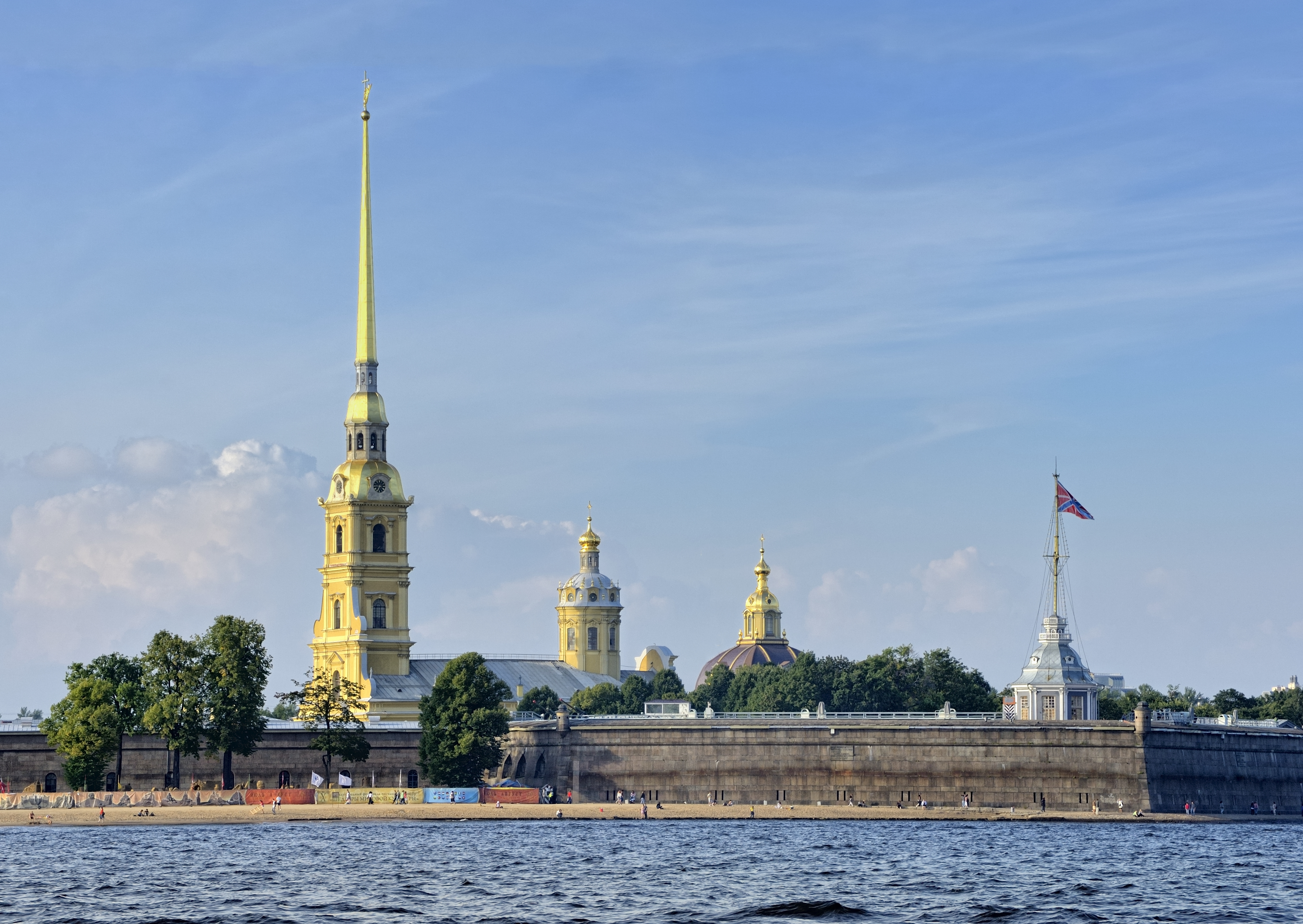 Peter & Paul Fortress, St.-Petersburg, Russia. The Peter and Paul Fortress has been put in 1703 according to plan of Peter I and the French engineer Zhozefa Lambera де Gerena, originally was a tree-earthen, but in 1706-1740, under the direction of D.Trezini, has been enclosed by a stone. The height of a spike of the Peter and Paul cathedral makes 122,5 meters. Daily midday is marked by a single shot from a cannon (tradition since Peter I). St.-Petersburg, Russia.